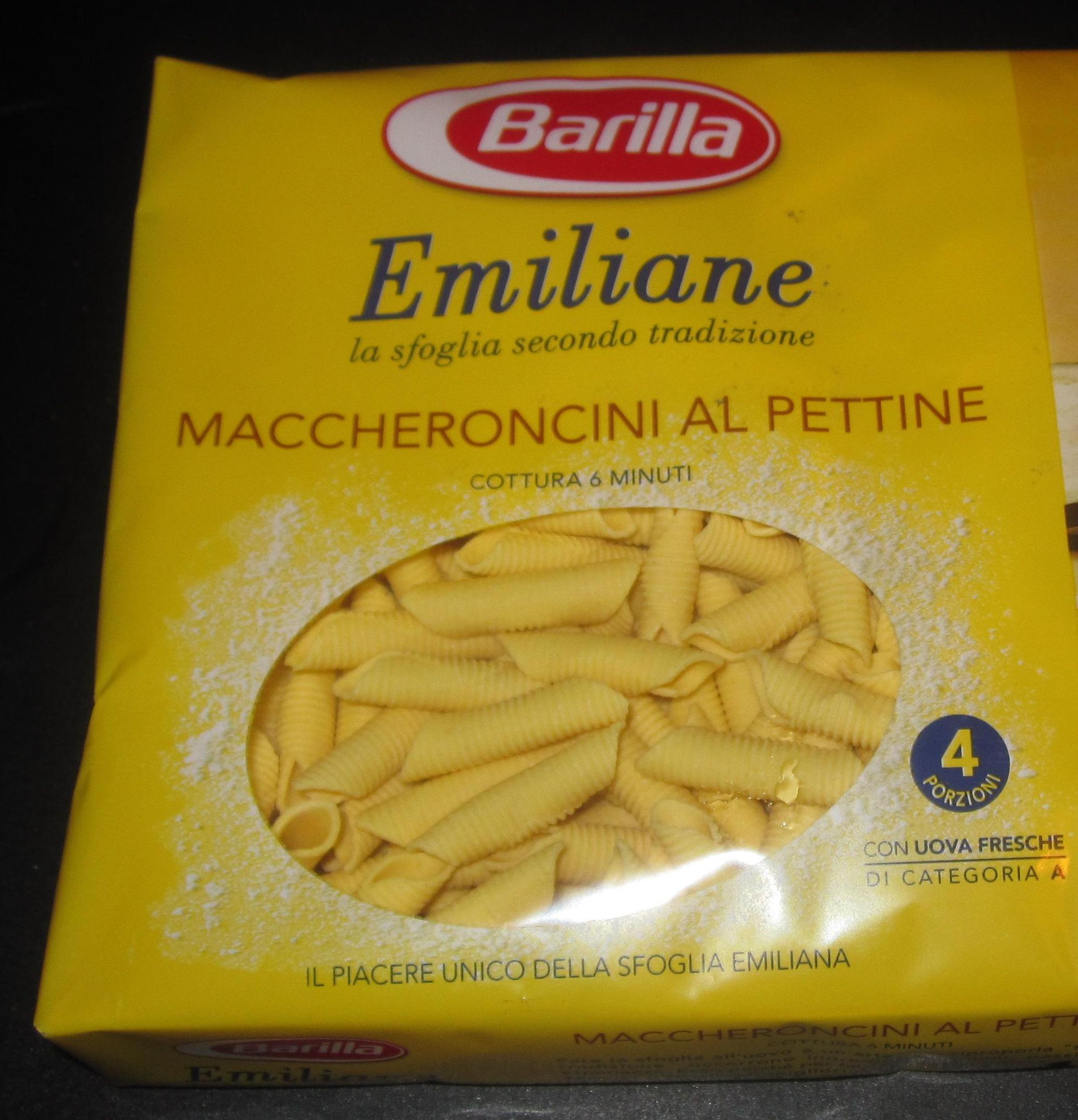 Barilla Maccheroncini al pettine